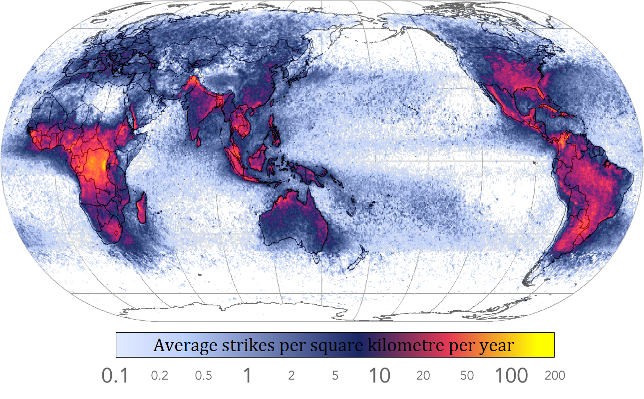 Frequency of lightning strikes throughout the world, based on data from NASA.